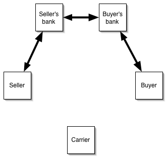 Letter of credit diagram